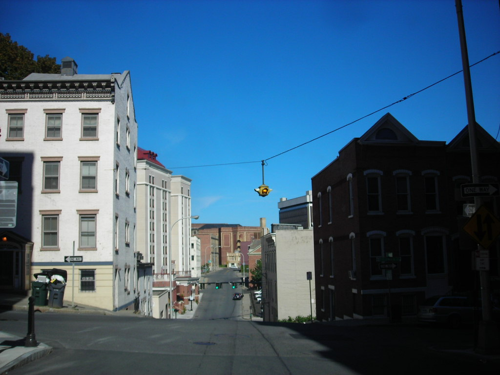 View of east end of Sheridan Hollow from Chapel Street, just south of intersection with Columbia Street. Albany, New York.